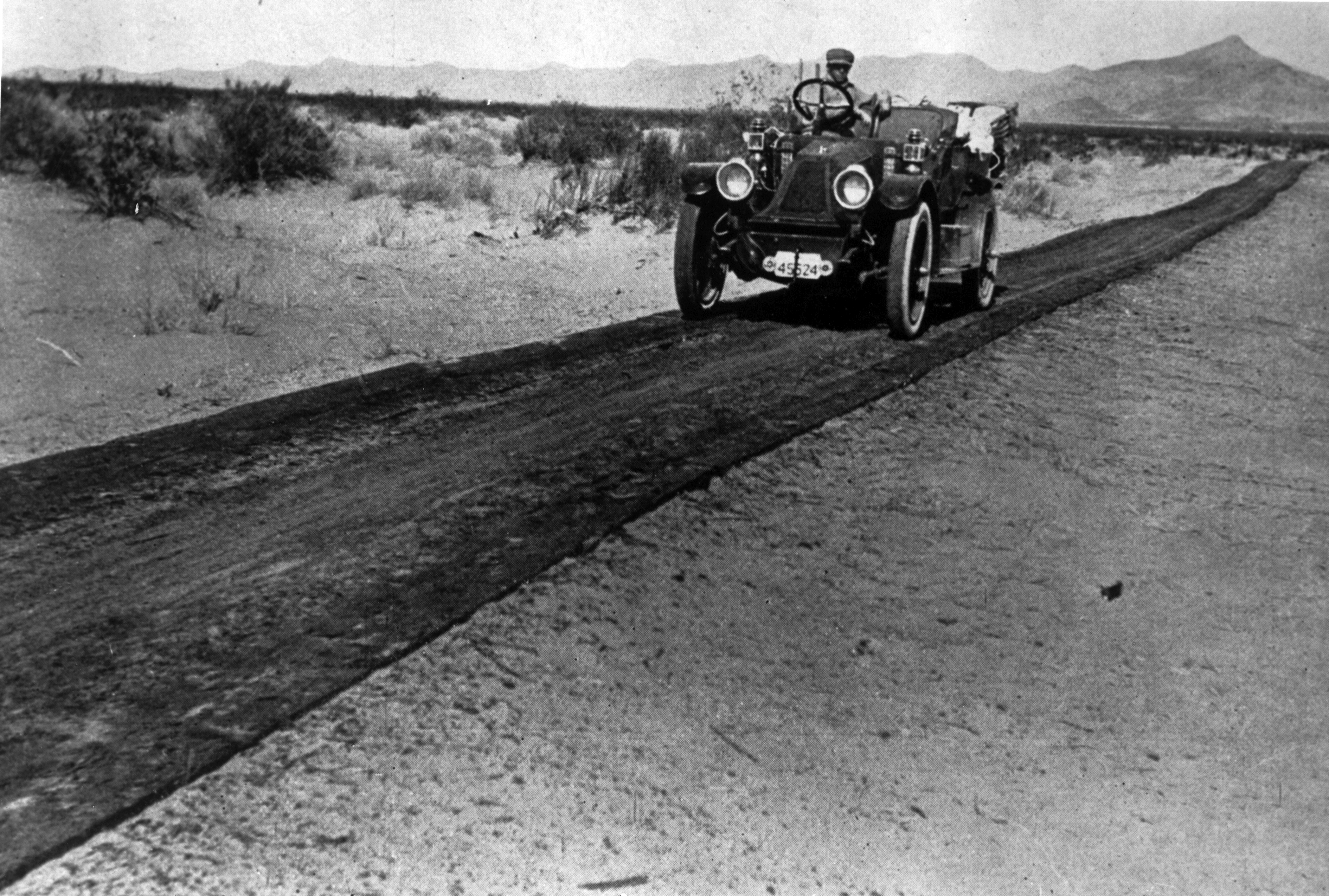 Historical image of vehicle traveling on Plank Road. Photo by BLM.